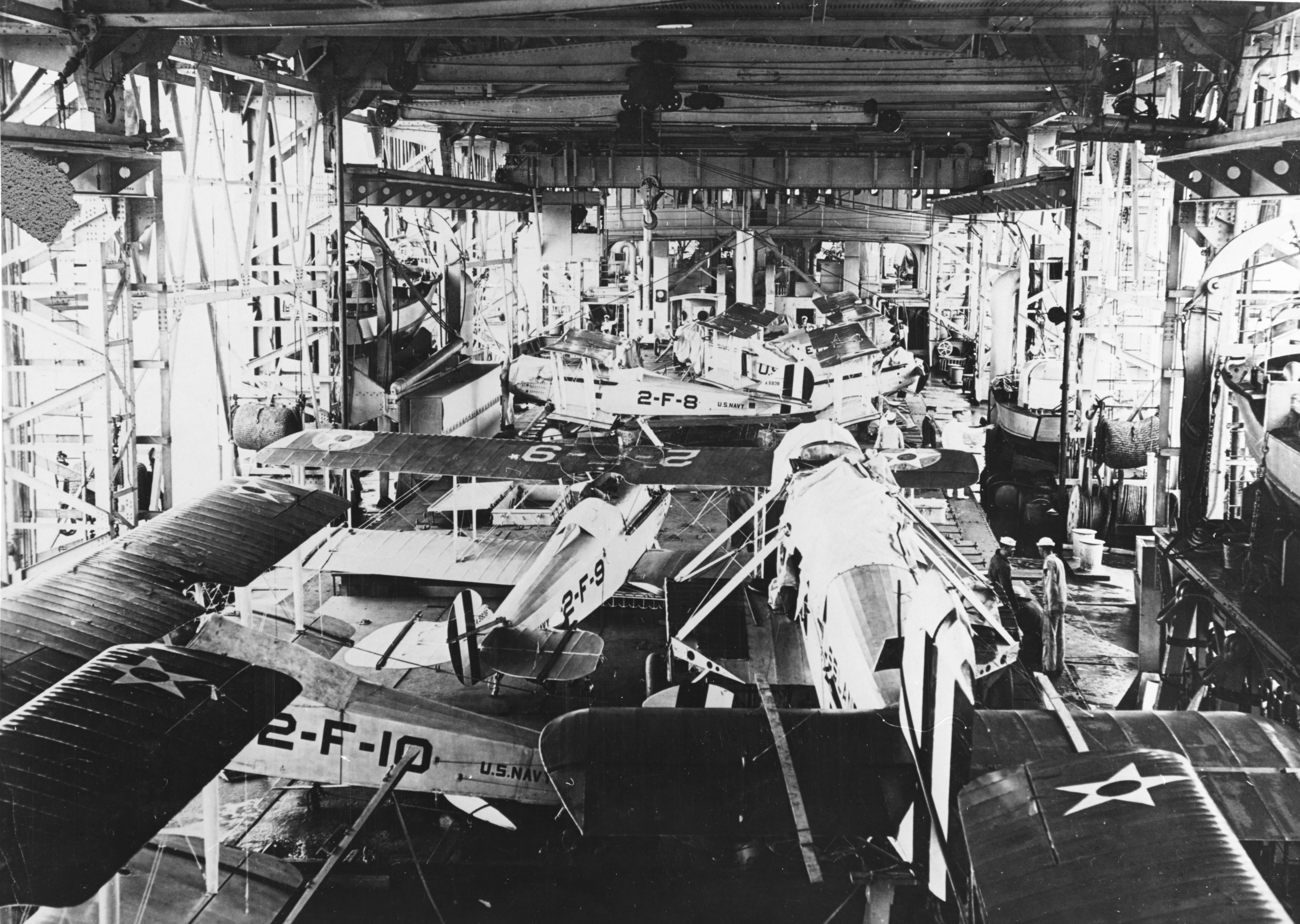 View of the hangar of the United States Navy's first aircraft carrier USS Langley (CV-1) during the 1920s. The larger plane in the foreground is a Douglas DT torpedo bomber, with its wings removed. Other aircraft are Vought VE-7s of Fighter Squadron 2 (VF-2), including BuNos A5936 (marked "2-F-9") and A5938 (marked "2-F-8"). The ship's boats are stowed along the hangar sides.